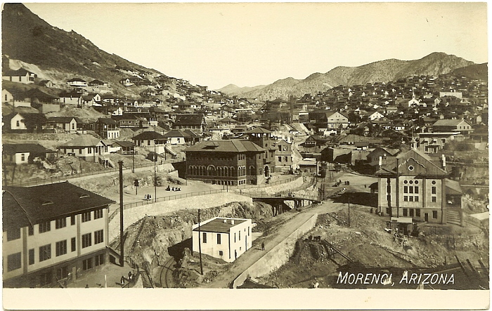 Postcard picture: Morenci. Store Web page states: "Original, circa 1910 Real Photo postcard. Caption reads "Morenci, Arizona". Card is postally unused with an early AZO back."